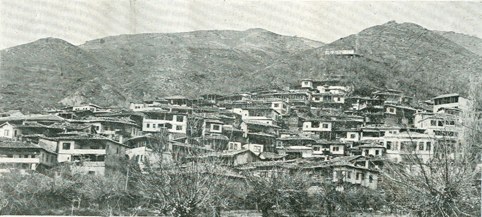 Gorni Poroy at the beginnig of the XX Century